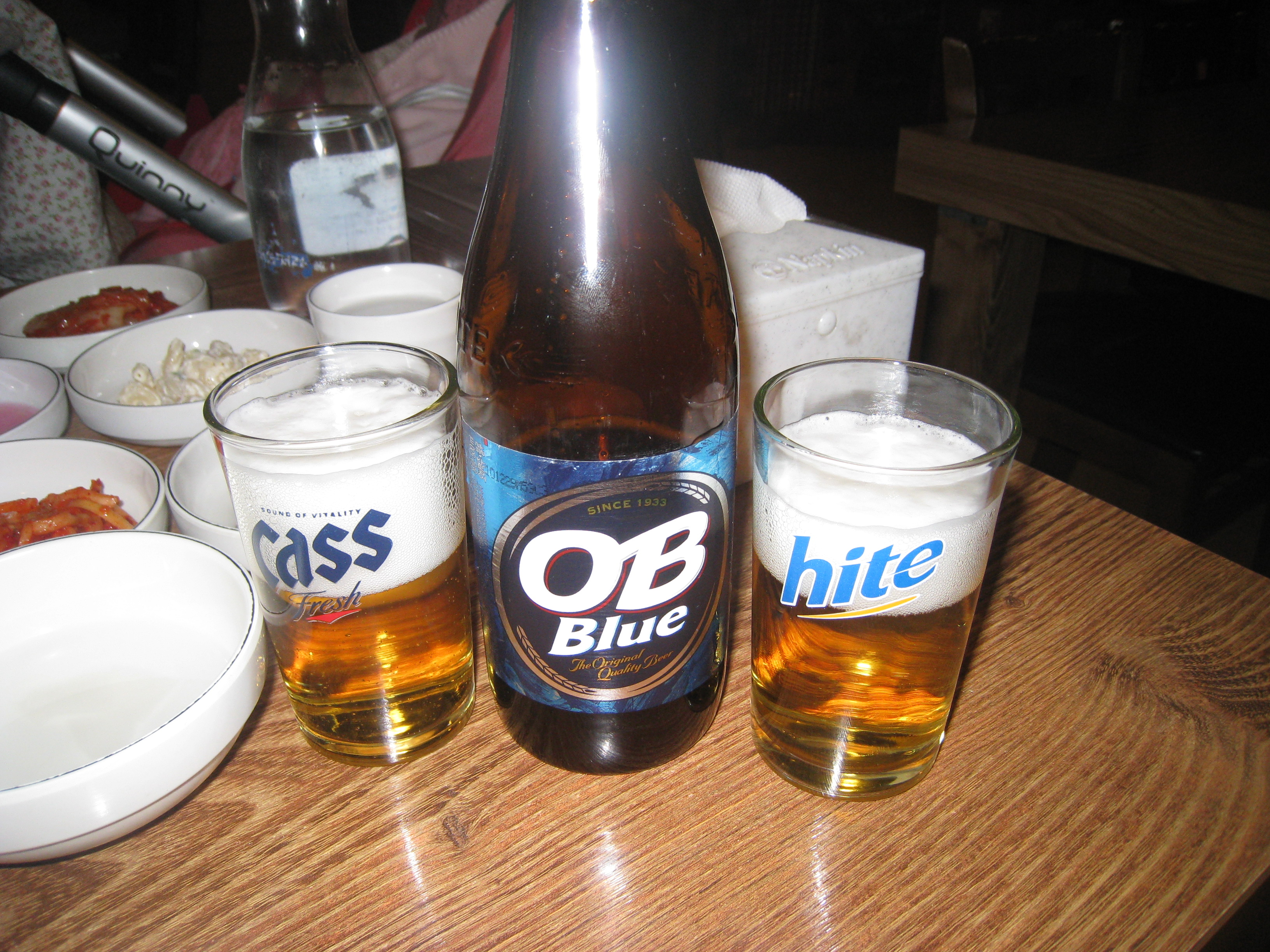 Three korean beers